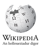 Wikipedia logo 2.0